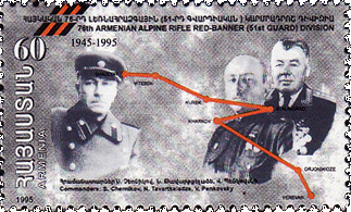 Commanders: S.Chernikov, N.Tavartkeladze and V.Penkovsky 76th mountain-rifle red-bunner (51st guard) division. Stamp of Armenia